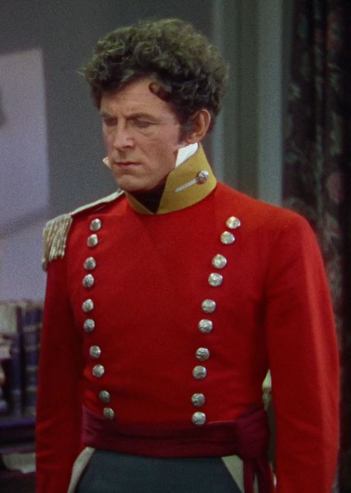 Colin Tapley in Becky Sharp - cropped screenshot